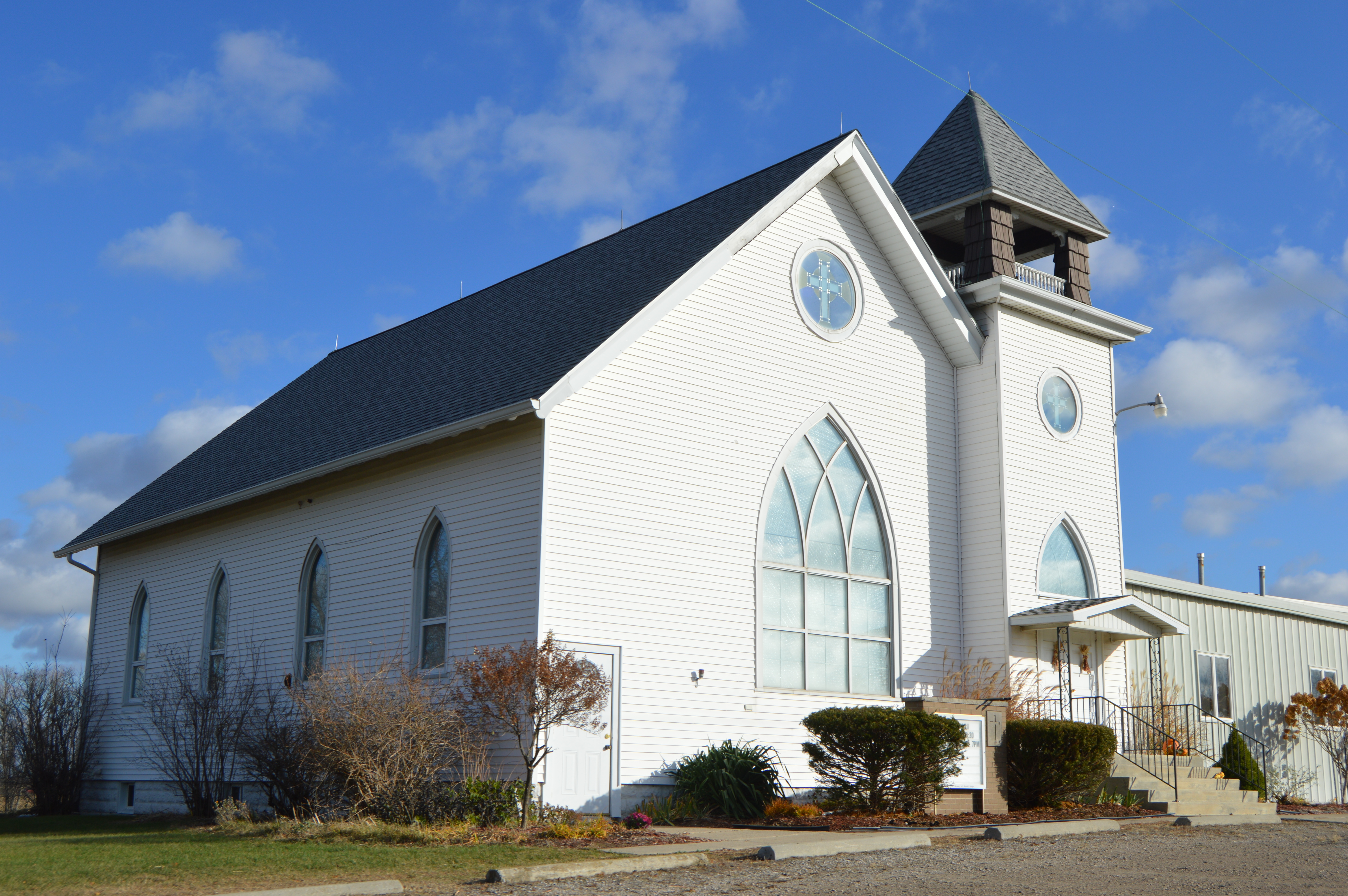 Front and western side of the Fulton Union Christian Church, located on County Road HJ northeast of Delta in southwestern Fulton Township, Fulton County, Ohio, United States.